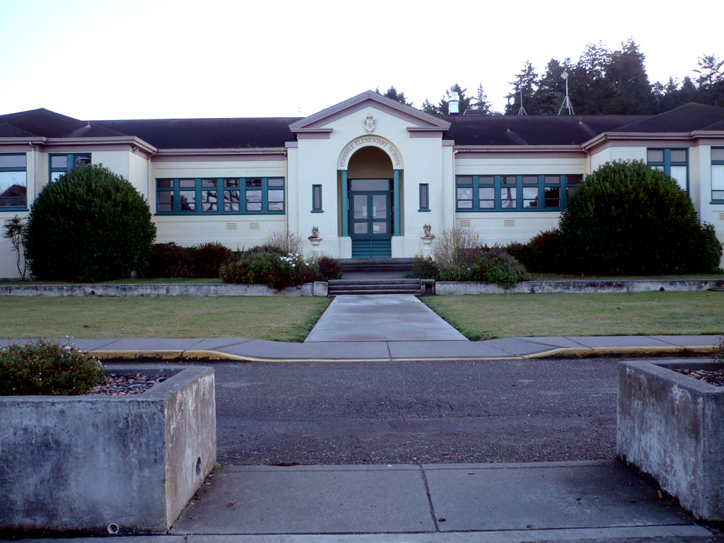 This main building of the Ferndale Elementary School was built in 1924. It is located on Shaw Street in Ferndale, California